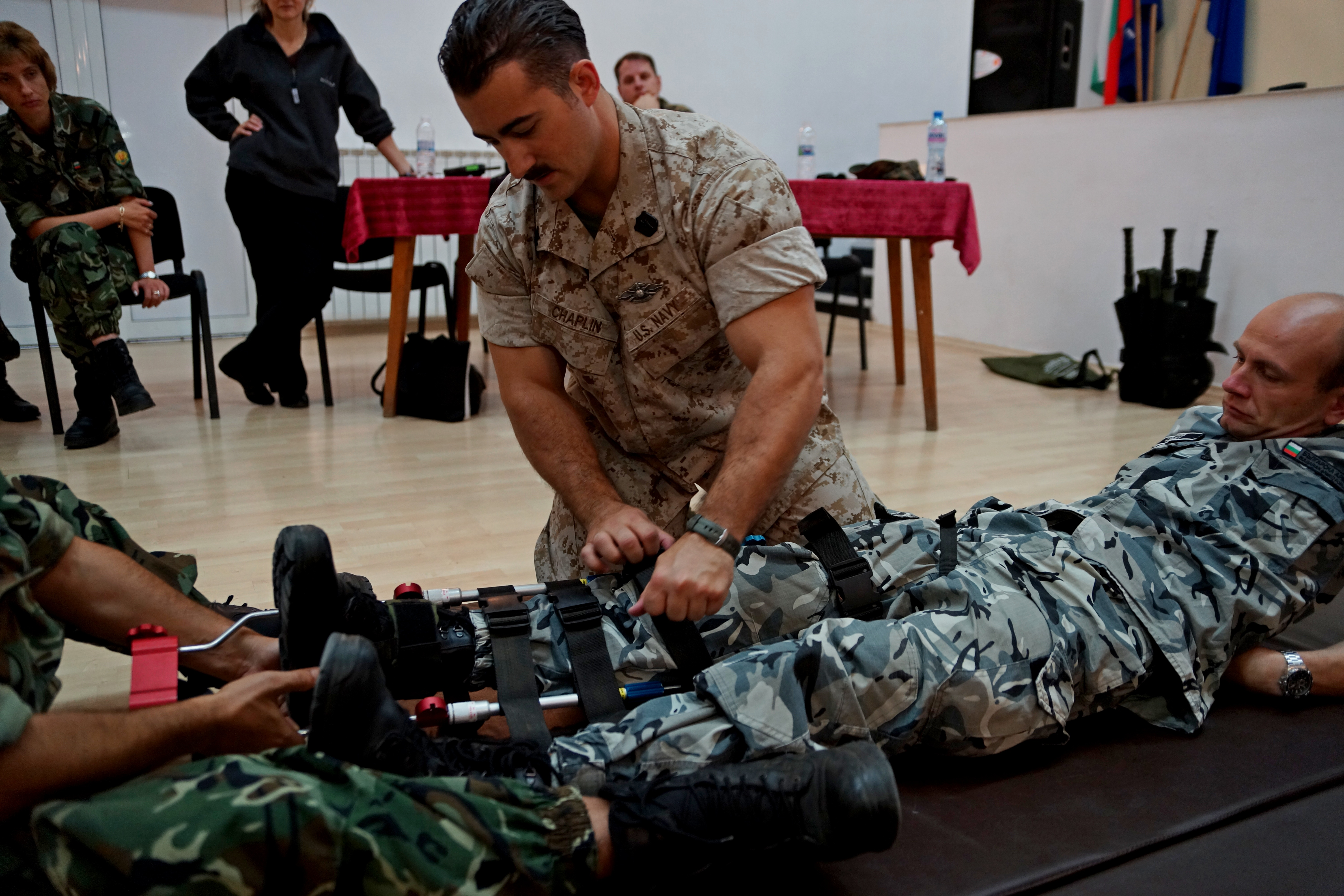 Combat Lifesaver Course